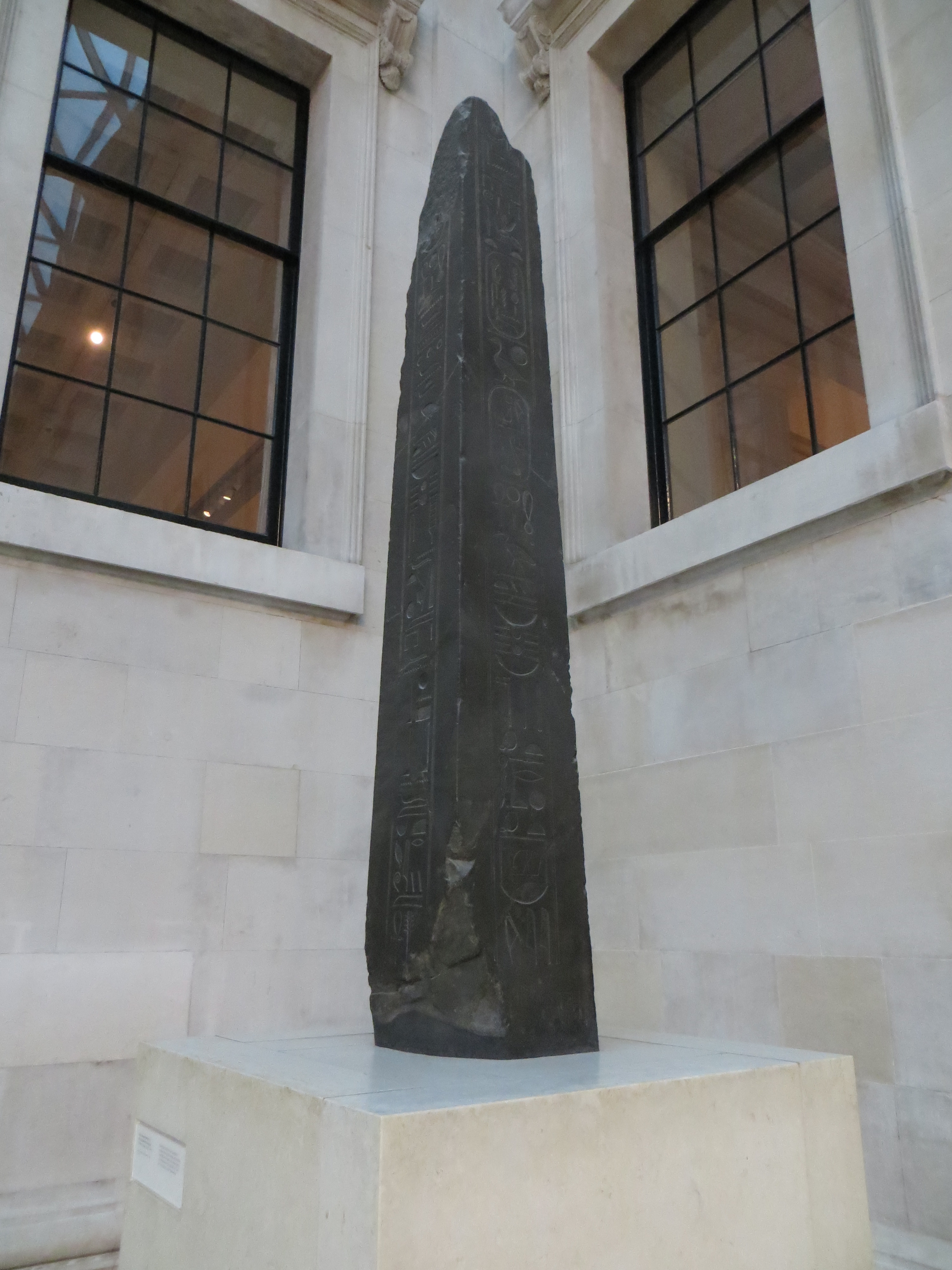 One of two obelisks of the Egyptian King Nectanebo II (circa 350 BC) in the British Museum